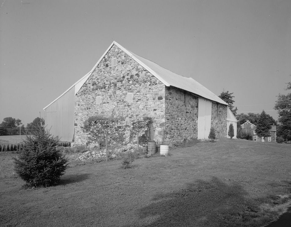 Mitchell Bank Barn, Doe Run Road, Corner Ketch, New Castle County, DE. 1930s Image courtesy of the Historic American Building Survey—HABS archives.